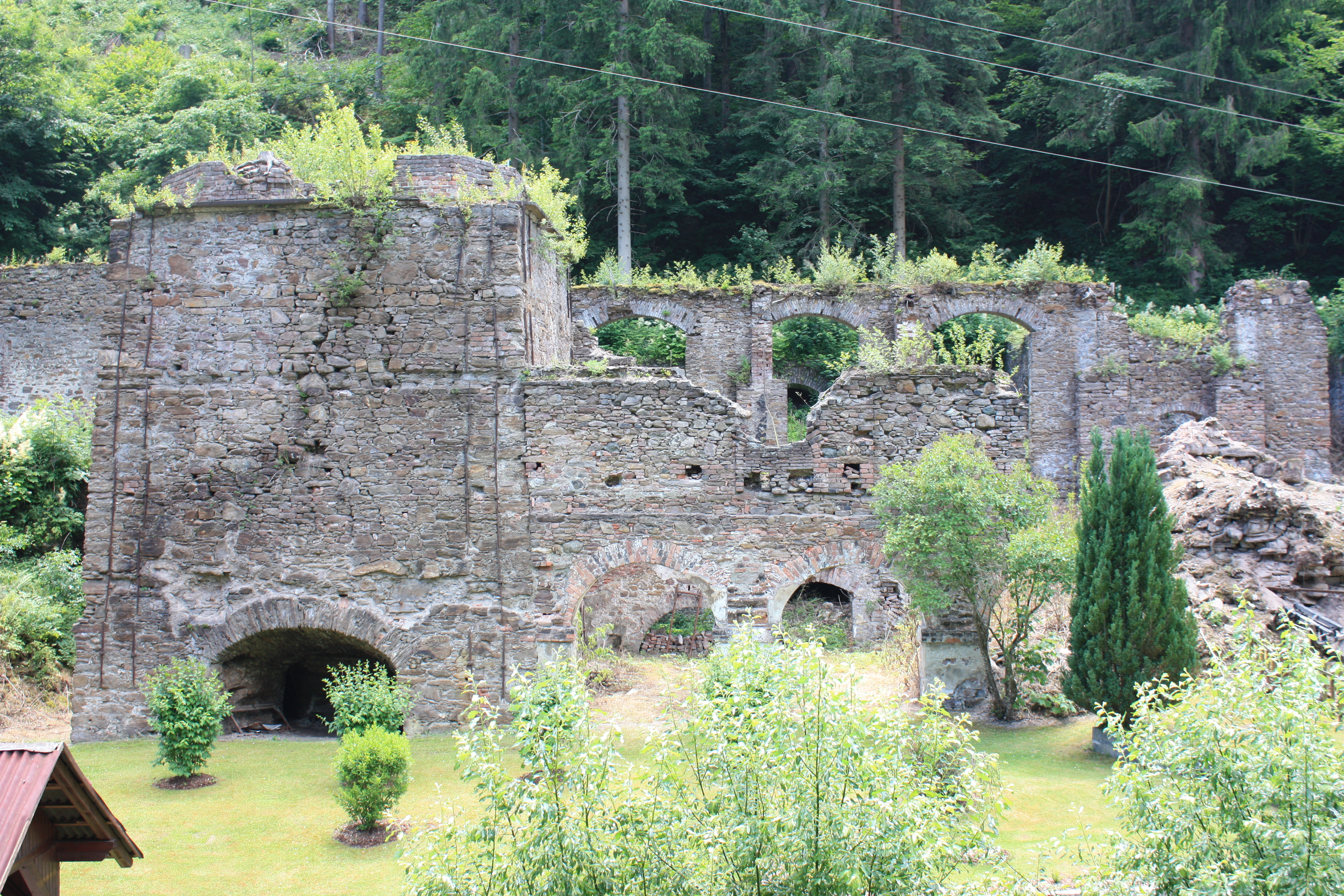 Ruin of the Blast furnace Locality:Lölling Community:Hüttenberg